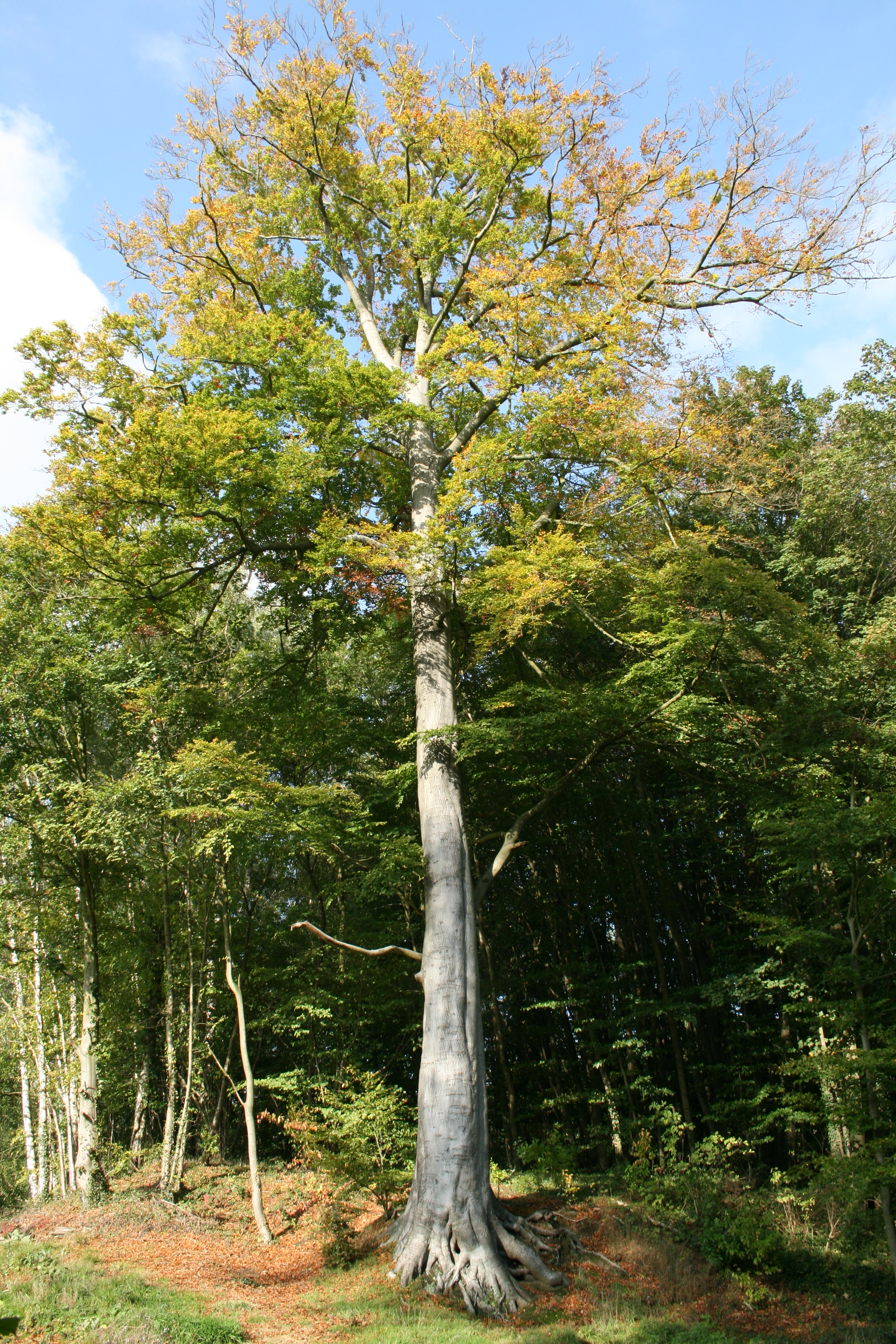 European beech